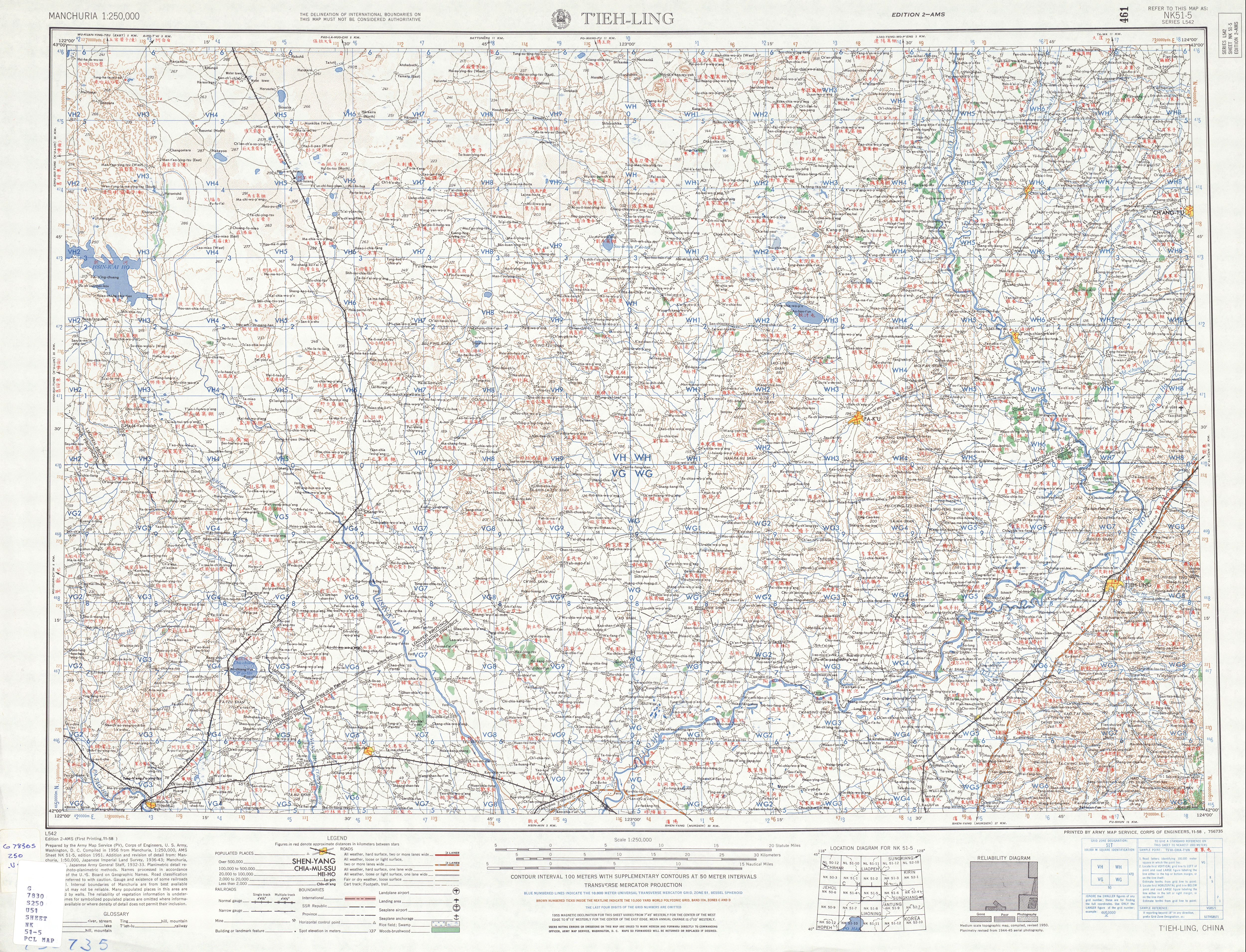 Manchuria AMS Topographic Maps